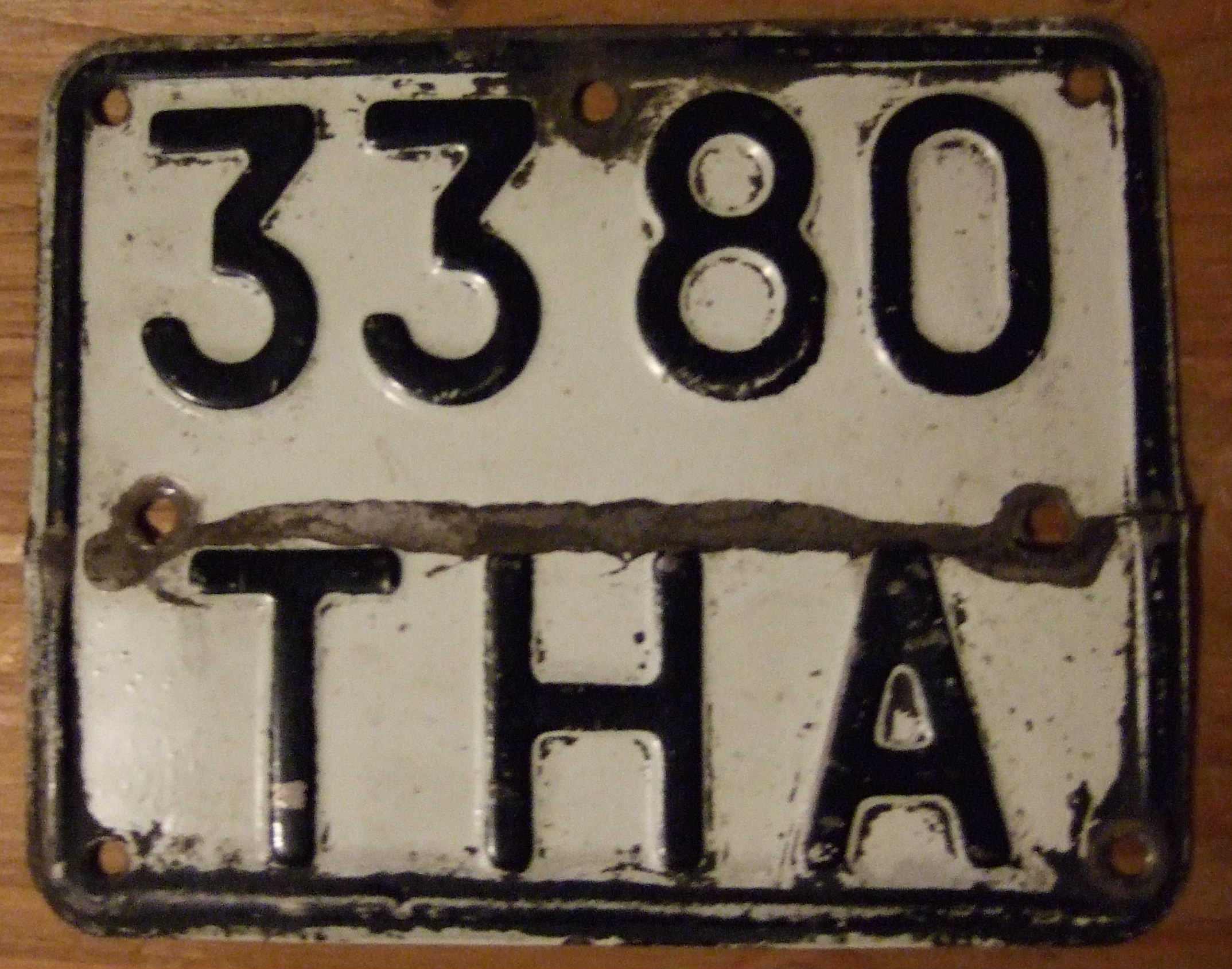 USSR Tashkent UZBEK SSR motorcycle